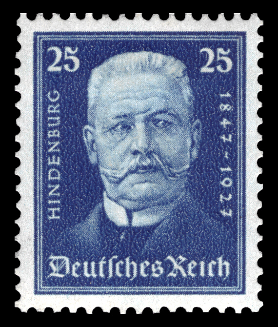 German social help - Paul von Hindenburg (1847-1934) Graphics by unbekannt Ausgabepreis: 25+25 Pfennig First Day of Issue / Erstausgabetag: 26. September 1927 Michel-Katalog-Nr: 405 (Deutsches Reich)